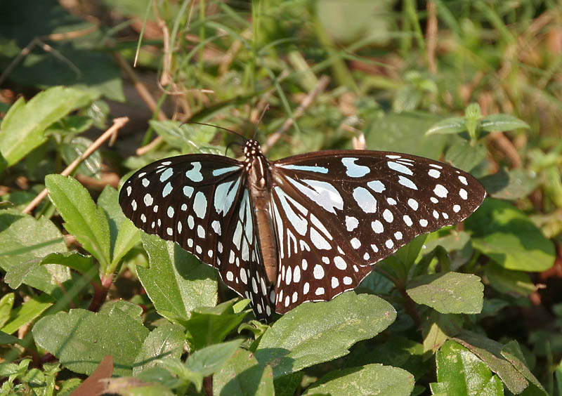 Blue Tiger Tirumala limniace in Kolkata, West Bengal, India.